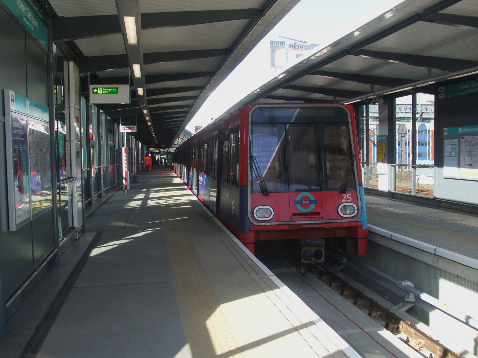 Tower Gateway DLR station departure platform, looking west to buffers, a few days after reopening in March 2009. This arrangement replaced the previous island platform